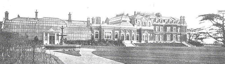 West front Pears House Isleworth